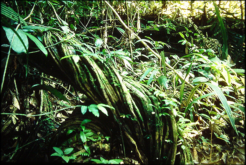 large twisted liana, photographed in Guianese forest close to the river sinnamary to 60 km approximately of Kourou